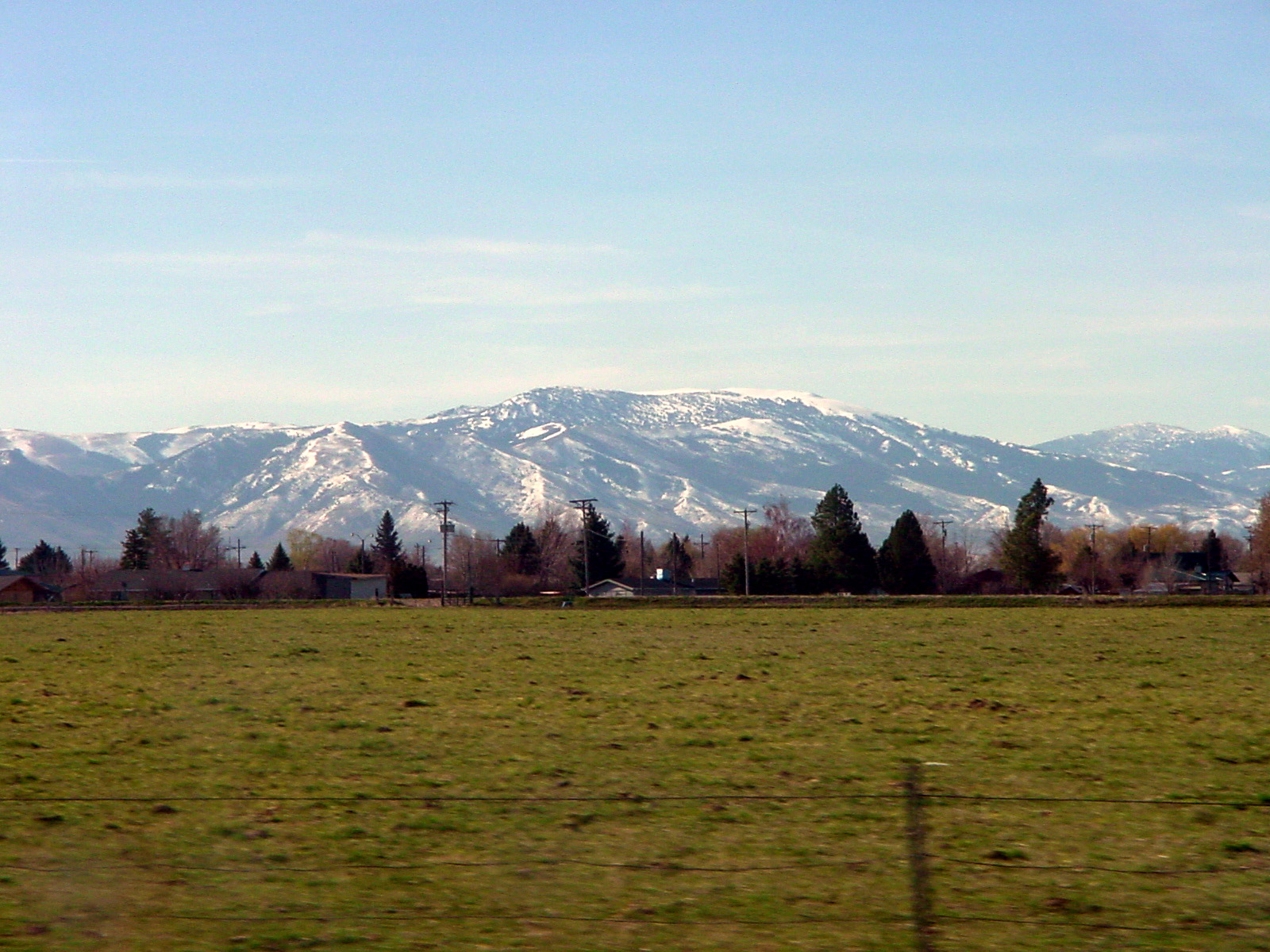 This is an image taken from Heyburn, Idaho looking South towards the mountains surrounding Albion.